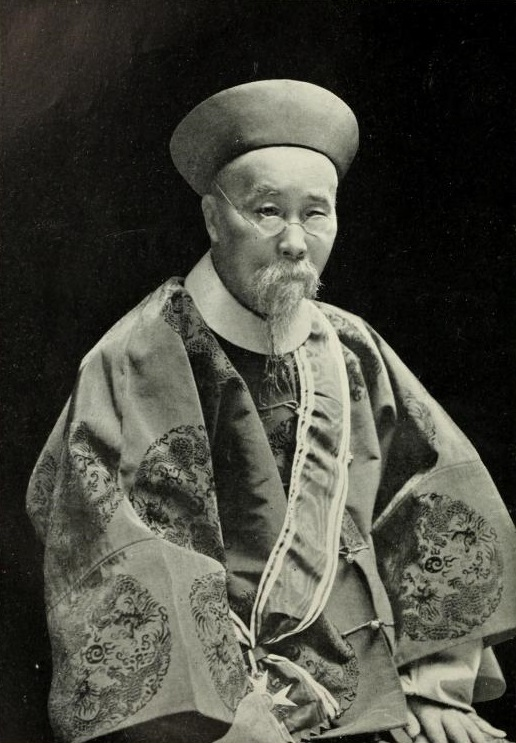 Portrait of Li Hongzhang